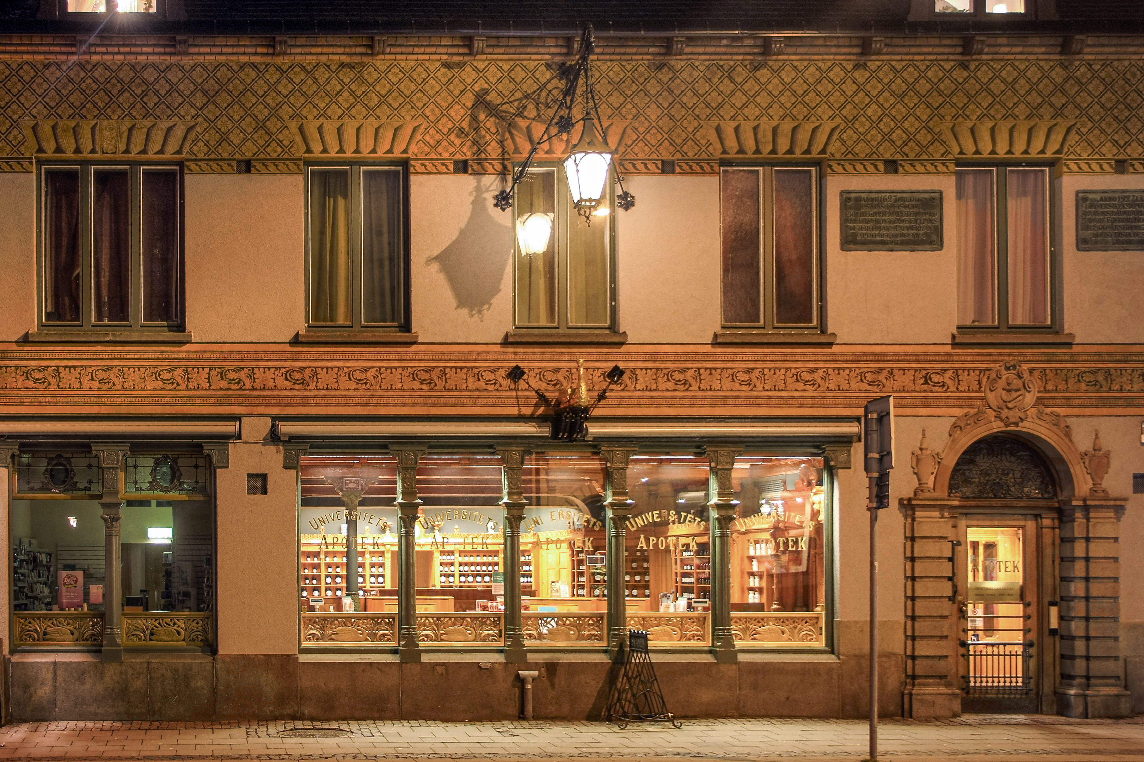 Pharmacy in Lund, Sweden. The image has been assembled from three exposures with HDR software.